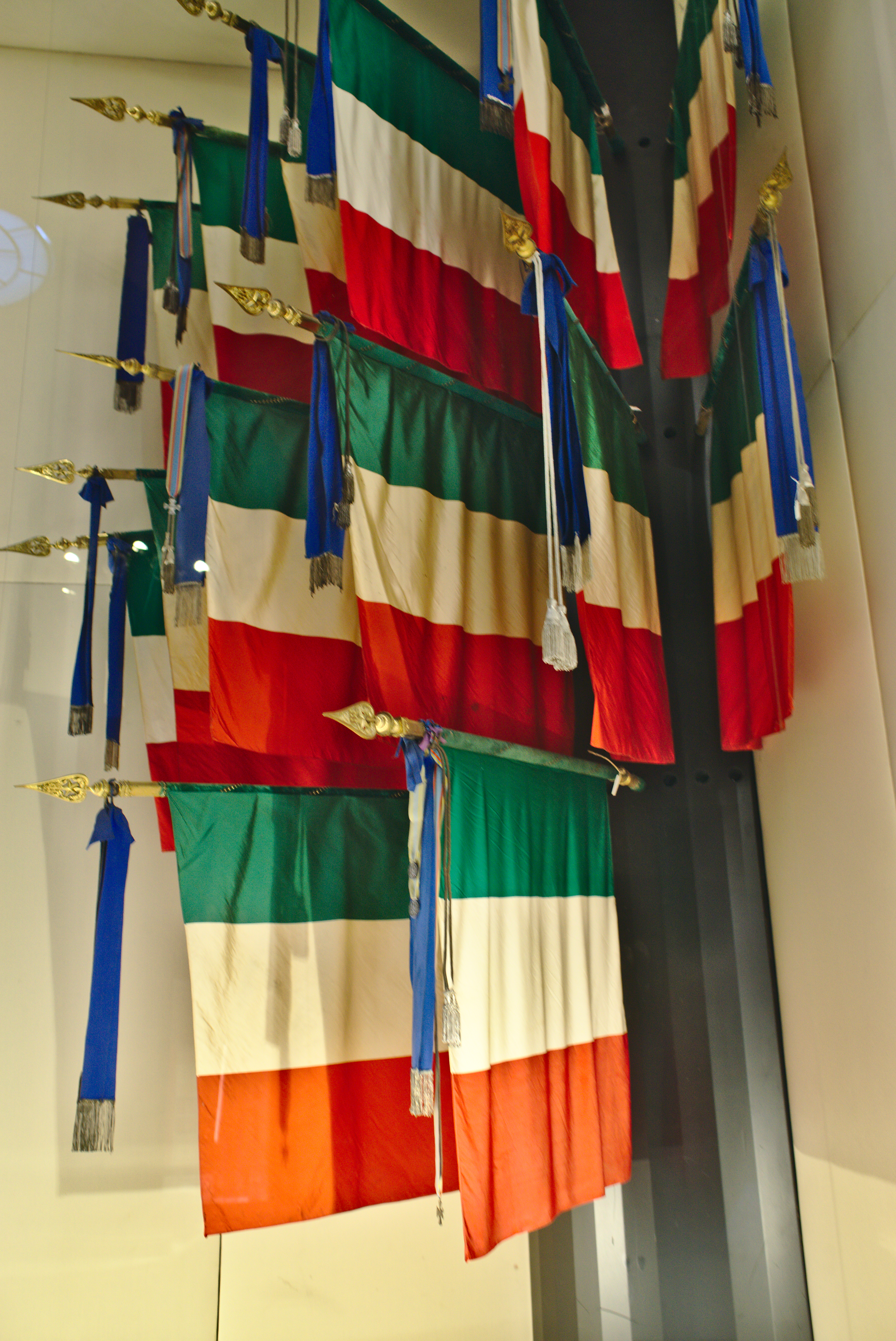 War flags of Italy